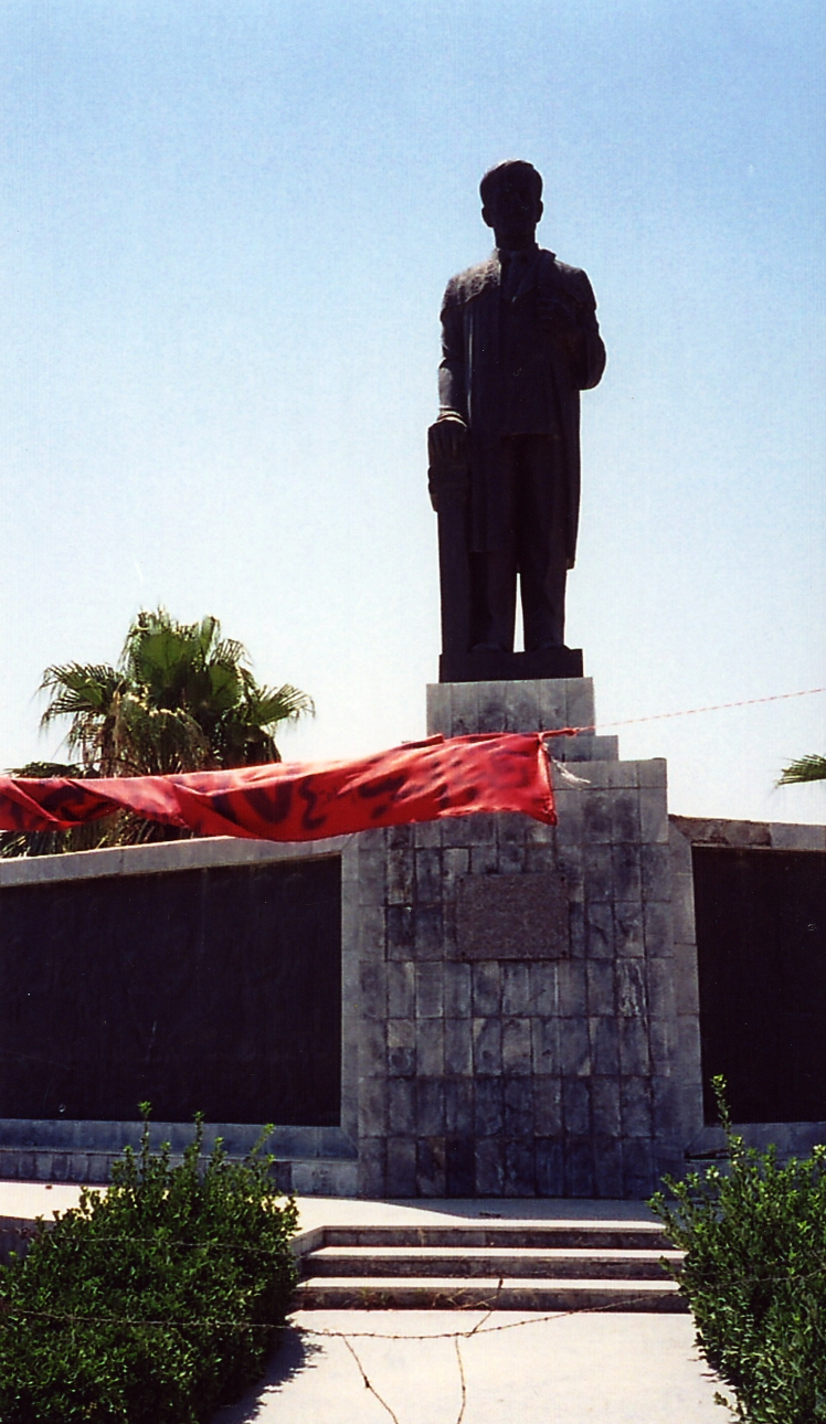 Statue of the former president of Syria, Hafez al-Assad, in central Damascus